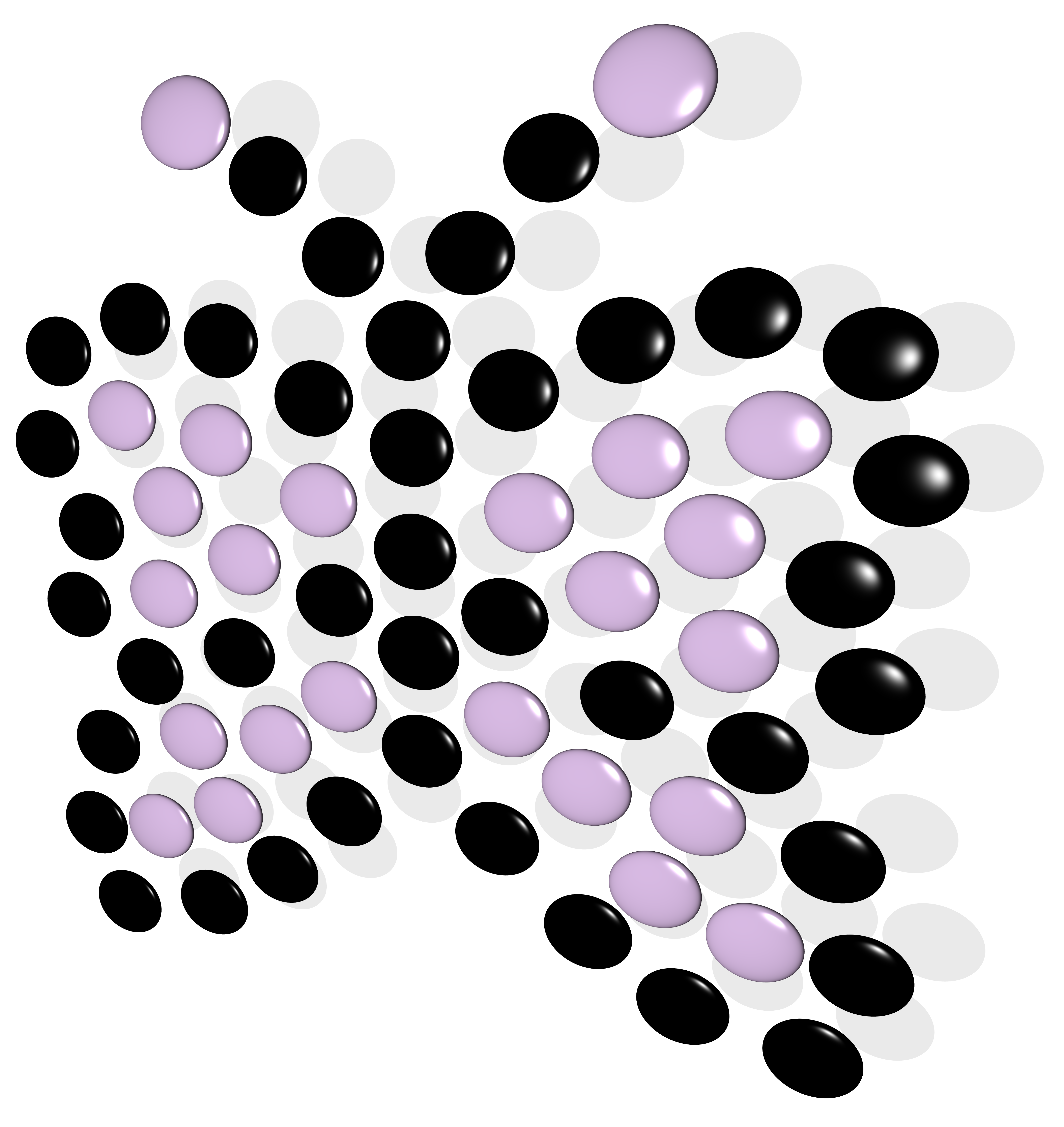 Logo of Hamakor Other information I created this logo for Hamakor, the Israeli free software association.